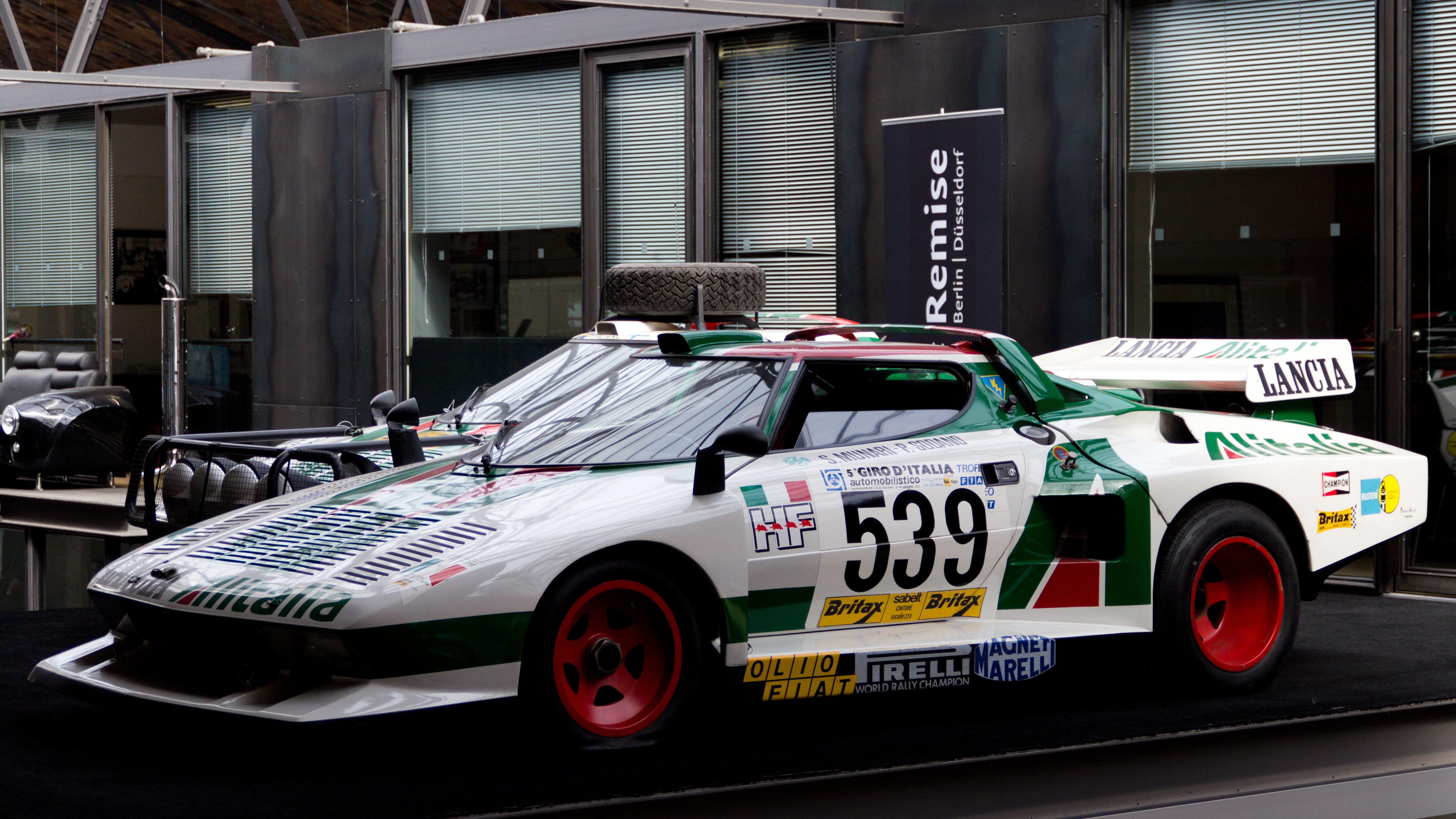 Lancia Stratos Turbo Group 5 on display at Classic Remise, Berlin.